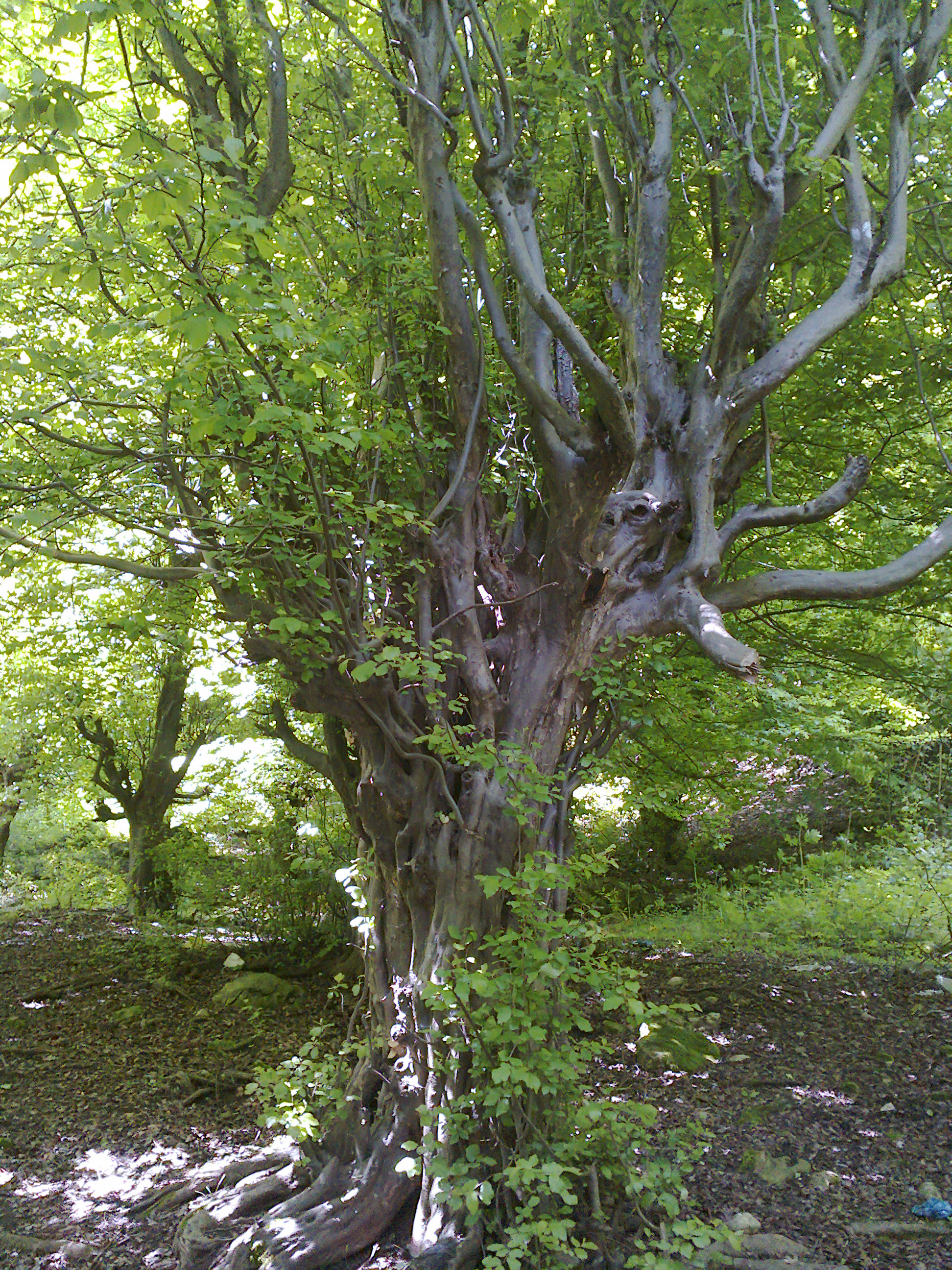 Photograph of a Persian Ironwood Parrotia persica, photo taken at the Ramsar in Iran.